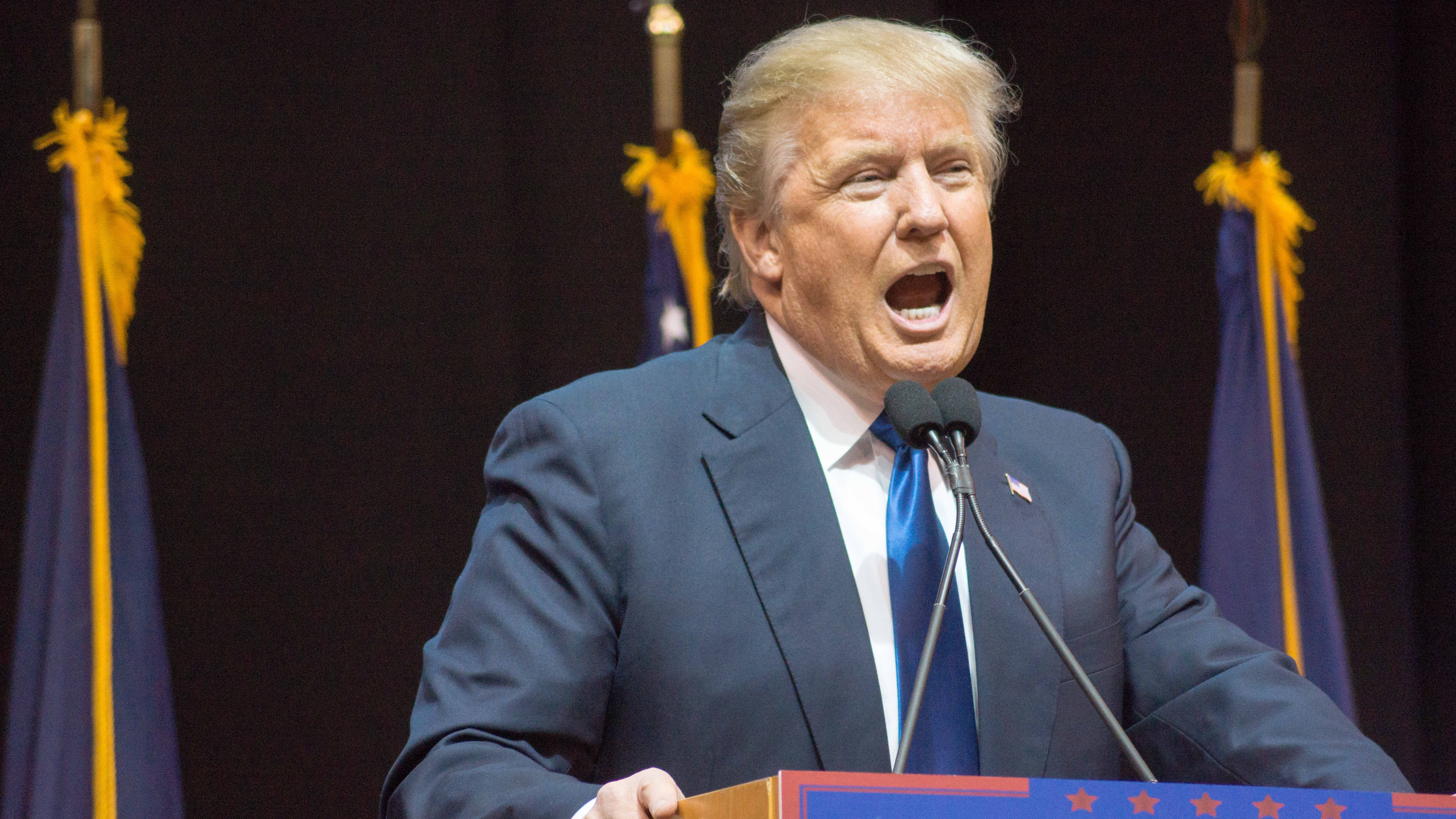 Donald Trump